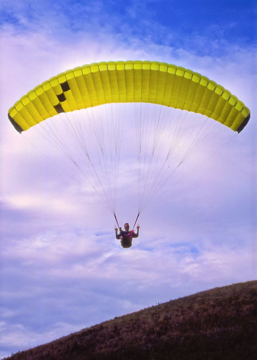 Paraglider at Cochrane Hill, AB, Canada. An APCO Starlite 26 canopy, being flown by Glen for a photo op of the photographer's rig at the Muller Windsports site above W:Cochrane, Alberta. Strictly an ascending parachute (not a term used by the paragliding community), it is conceptually more like today's ram-air sport parachutes (i.e. descending parachutes) than any mid-1970s-and-earlier sport parachuting devices, or even modern 'round' canopies designed for say, the aerospace industry.